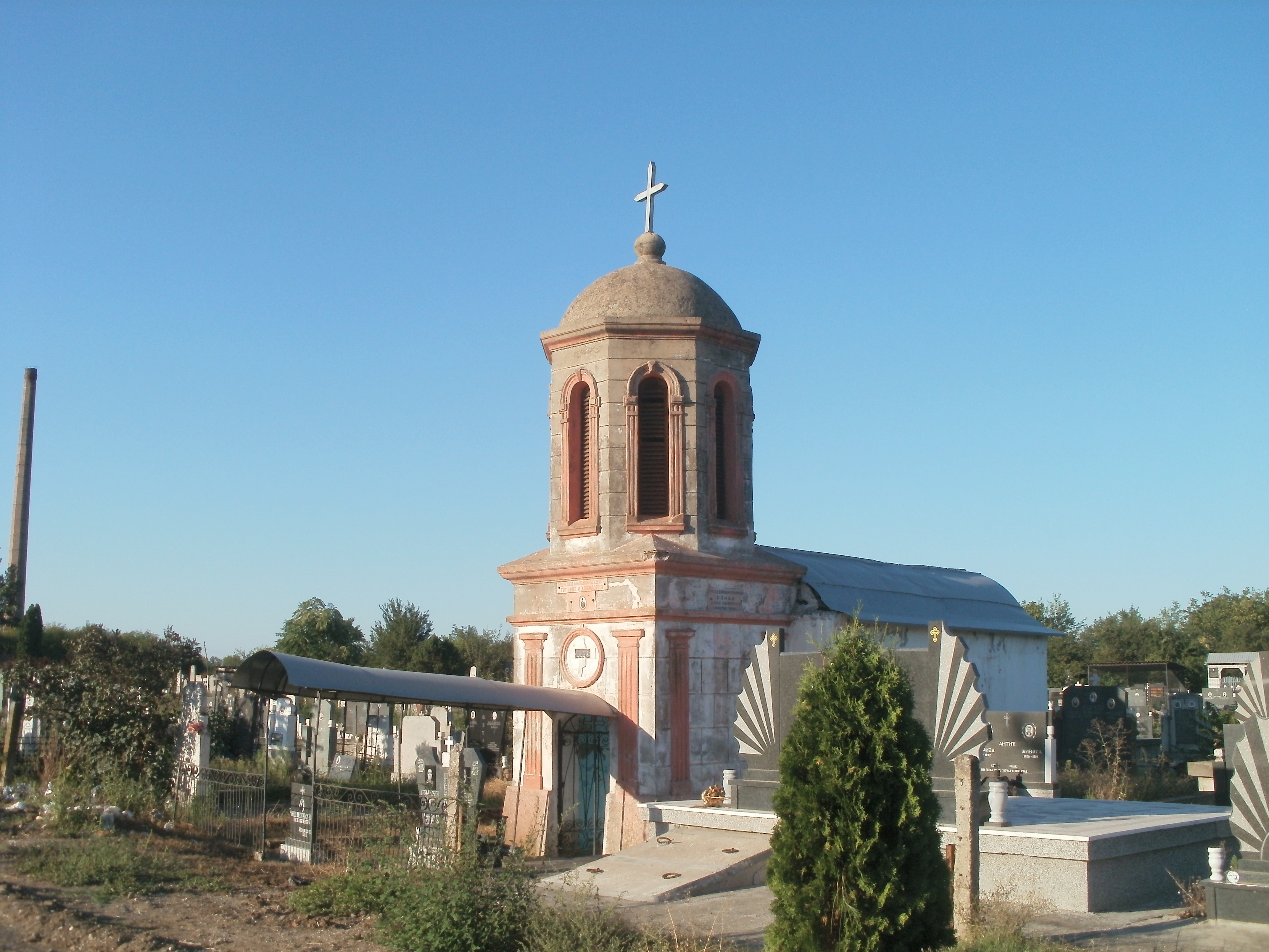 Saraorci, Cemetery chapel